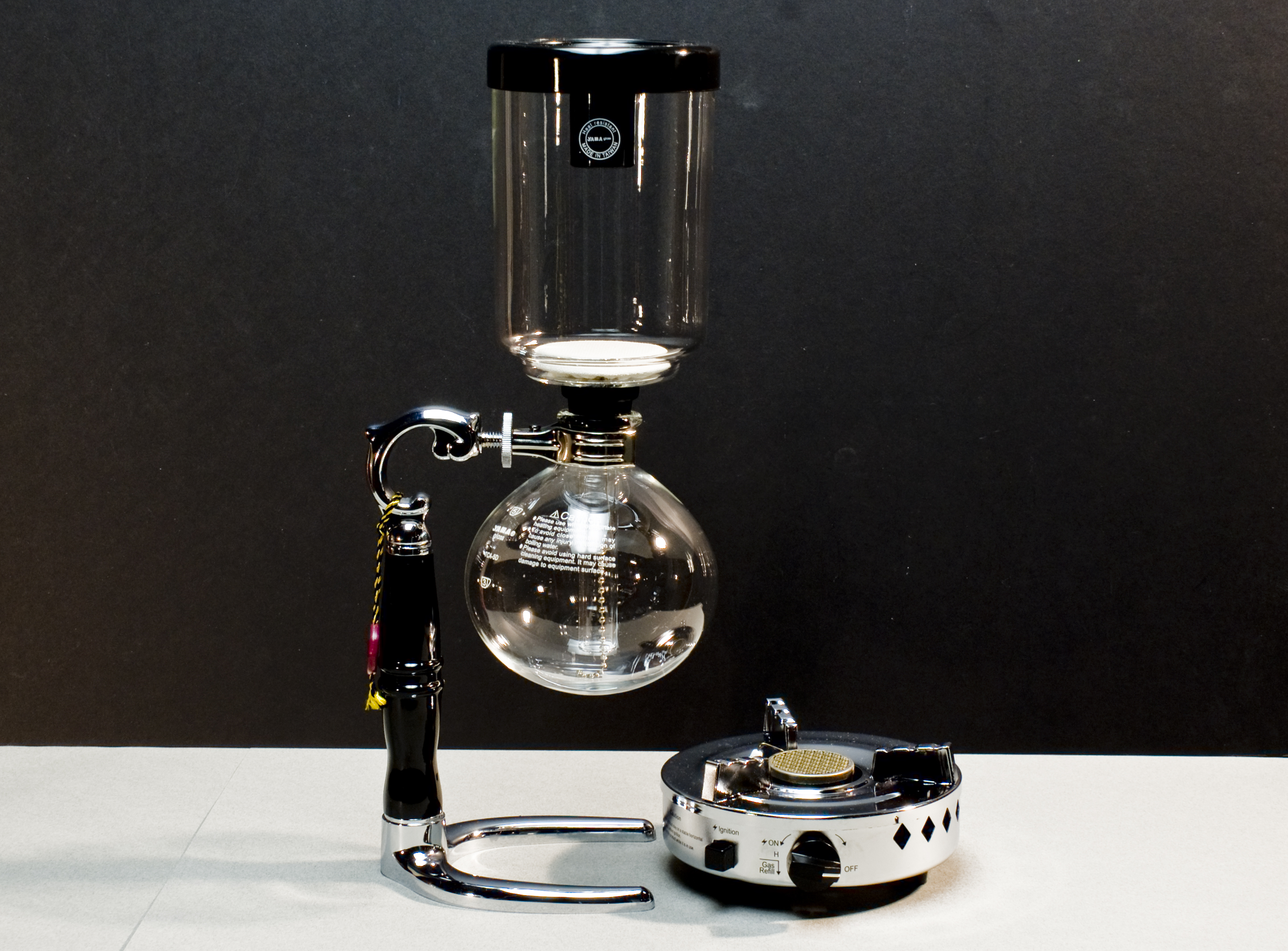 Photo of a yama Vacpot, Coffee Maker